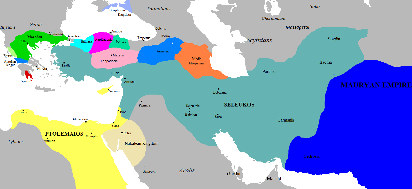 The Hellenistic world in 281 B.C., on the eve of the death of Seleucus I